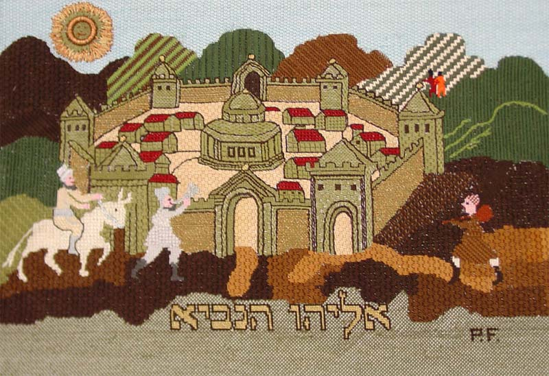 Creator: Pauline Fischer Date: undated Medium: colored thread; ultrasuede on reverse Repository: Yeshiva University Museum Call Number: 1996.396 Rights Information: No known copyright restrictions; may be subject to third party rights. For more copyright information, click here. See more information about this image and others at CJH Museum Collections. This material may be used for personal, research and educational purposes only. Any other use without prior authorization is prohibited. Please contact the Yeshiva University Museum at for further information.